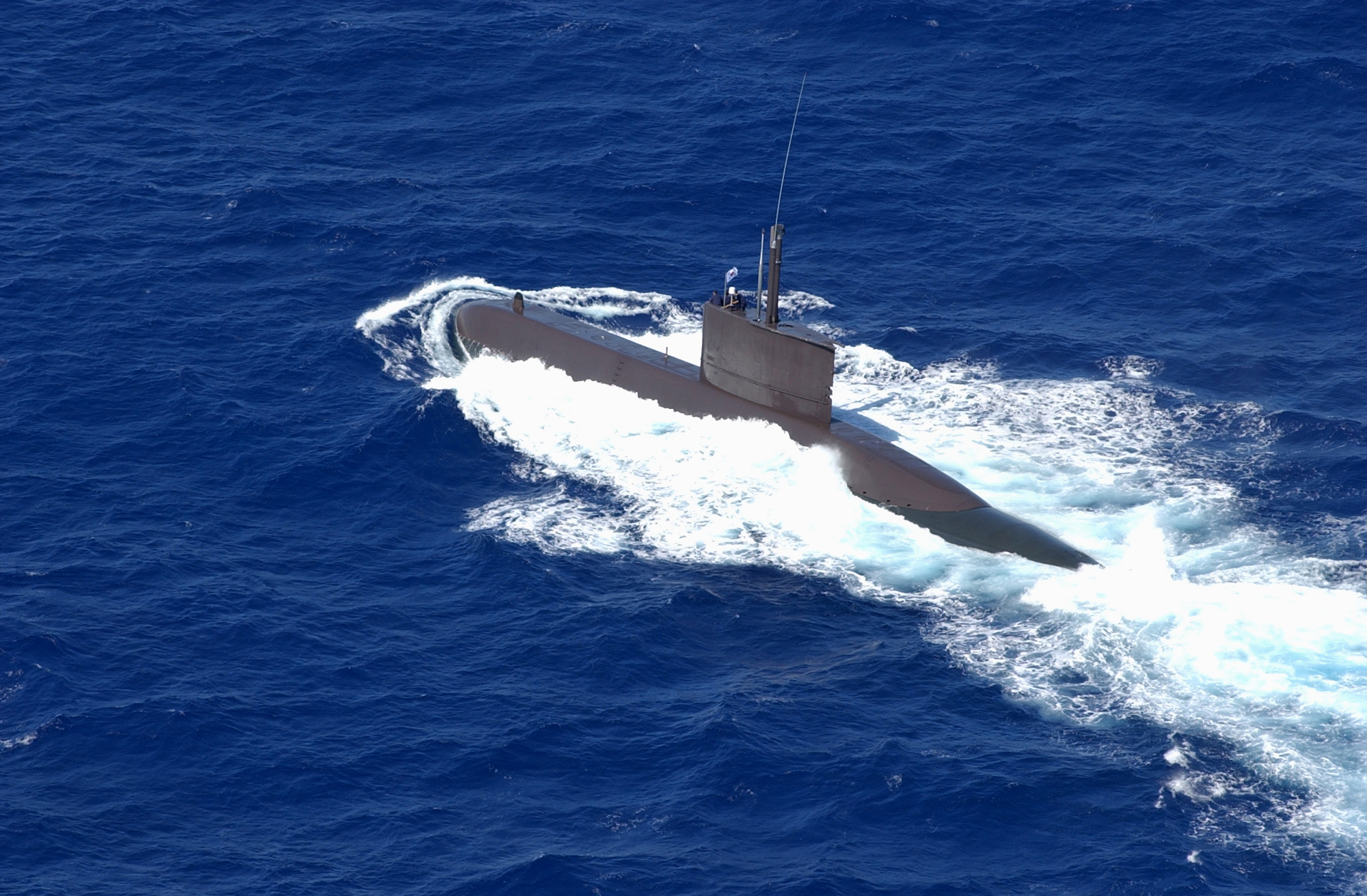 Pacific Missile Range Facility, Kauai, HI (Jul. 8, 2002) -- The Republic of Korea submarine Nadaeyung (SS 069) surfaces while conducting training exercises during “Rim of the Pacific” (RIMPAC) 2002. RIMPAC 2002 is designed to improve tactical proficiency in a wide array of combined operations at sea, while building cooperation and fostering mutual understanding between participating nations. Countries participating this year are: Australia, Canada, Chile, Peru, Japan, the Republic of Korea and the United States.